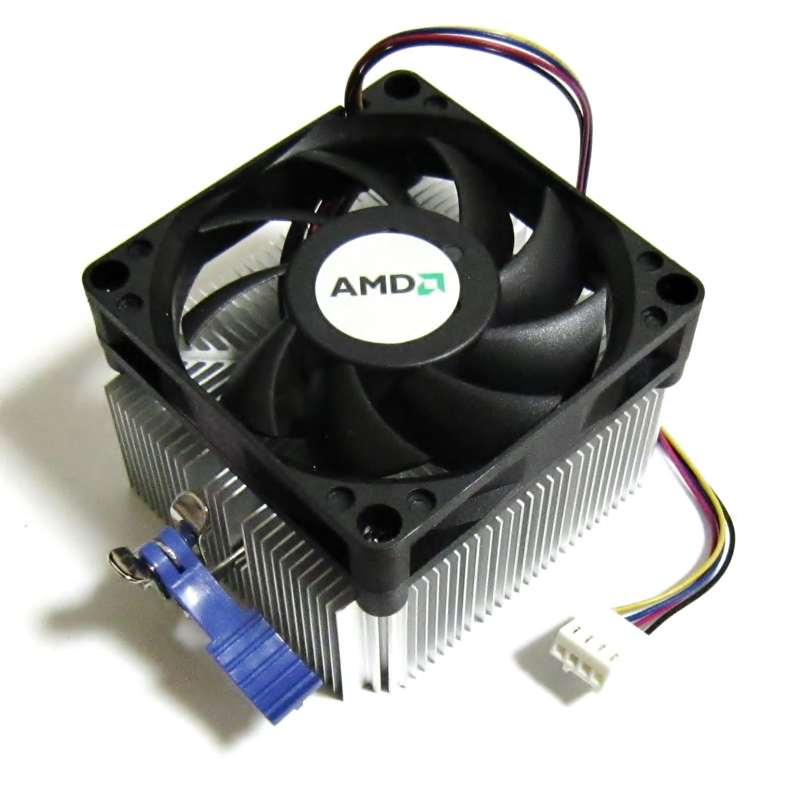 AMD Athlon II X4 630 heatsink/fan.